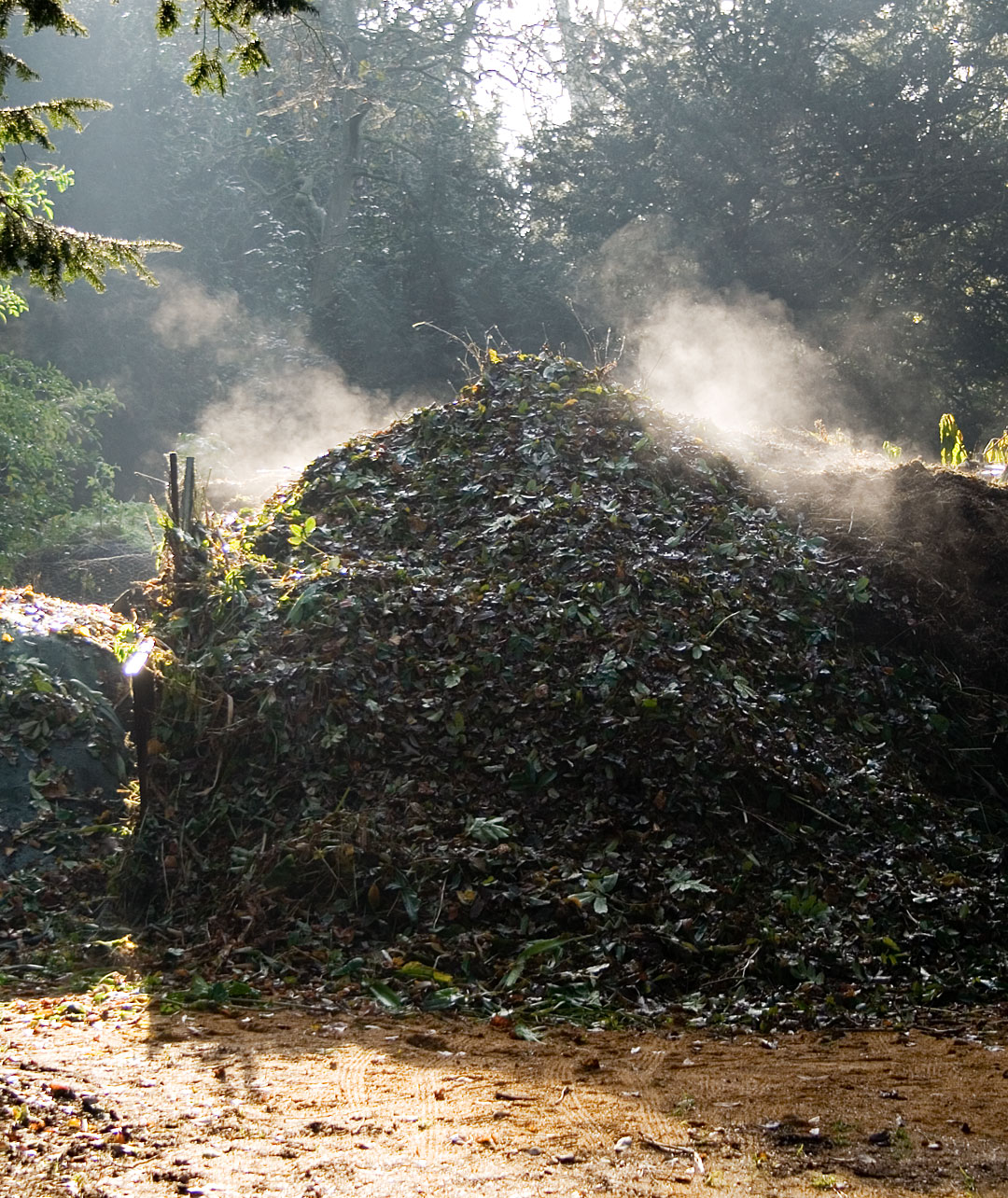 Compost heap on a frosty morning. The rising steam shows that the bacterial action in the compost heap is exothermic. Keywords: Compost heap, leaves, steam, soil